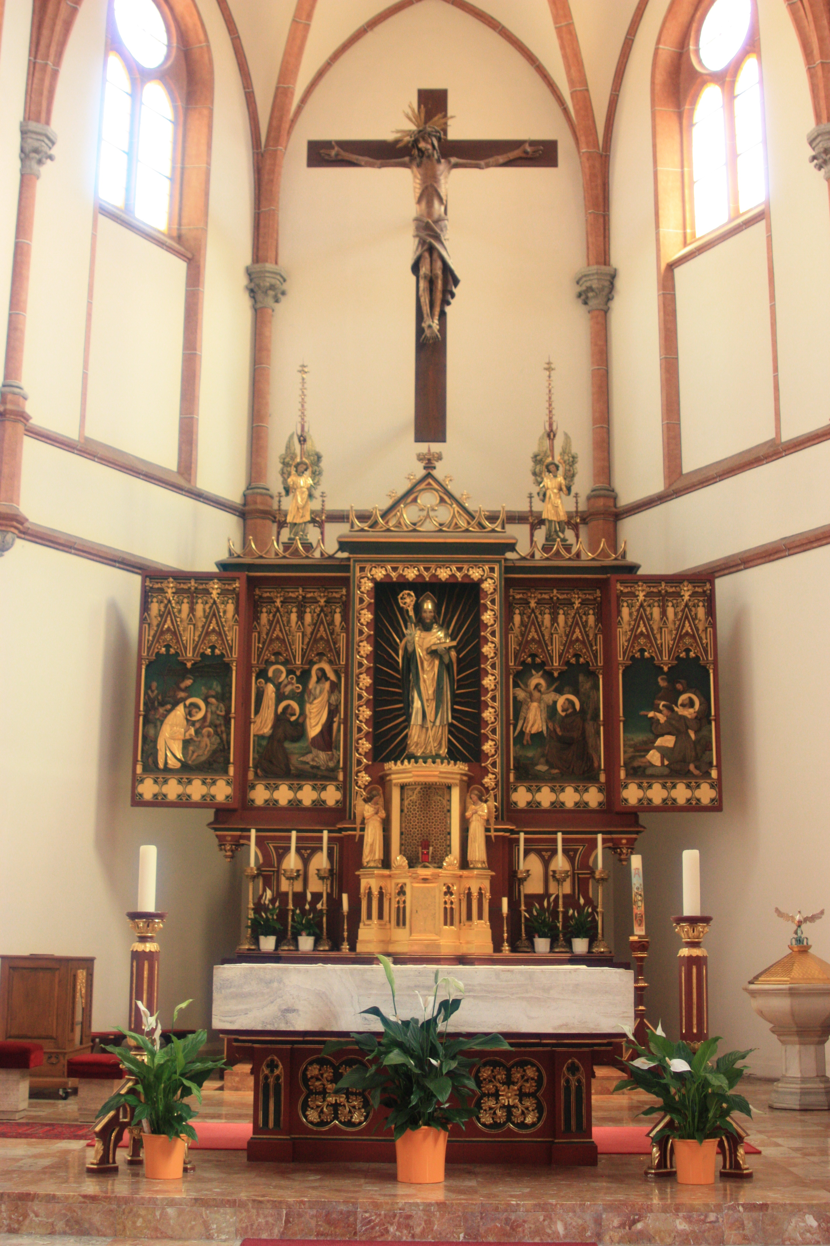 Parish church Saint Nikolaus: Main altar Street:Nikolaiplatz Community:Villach